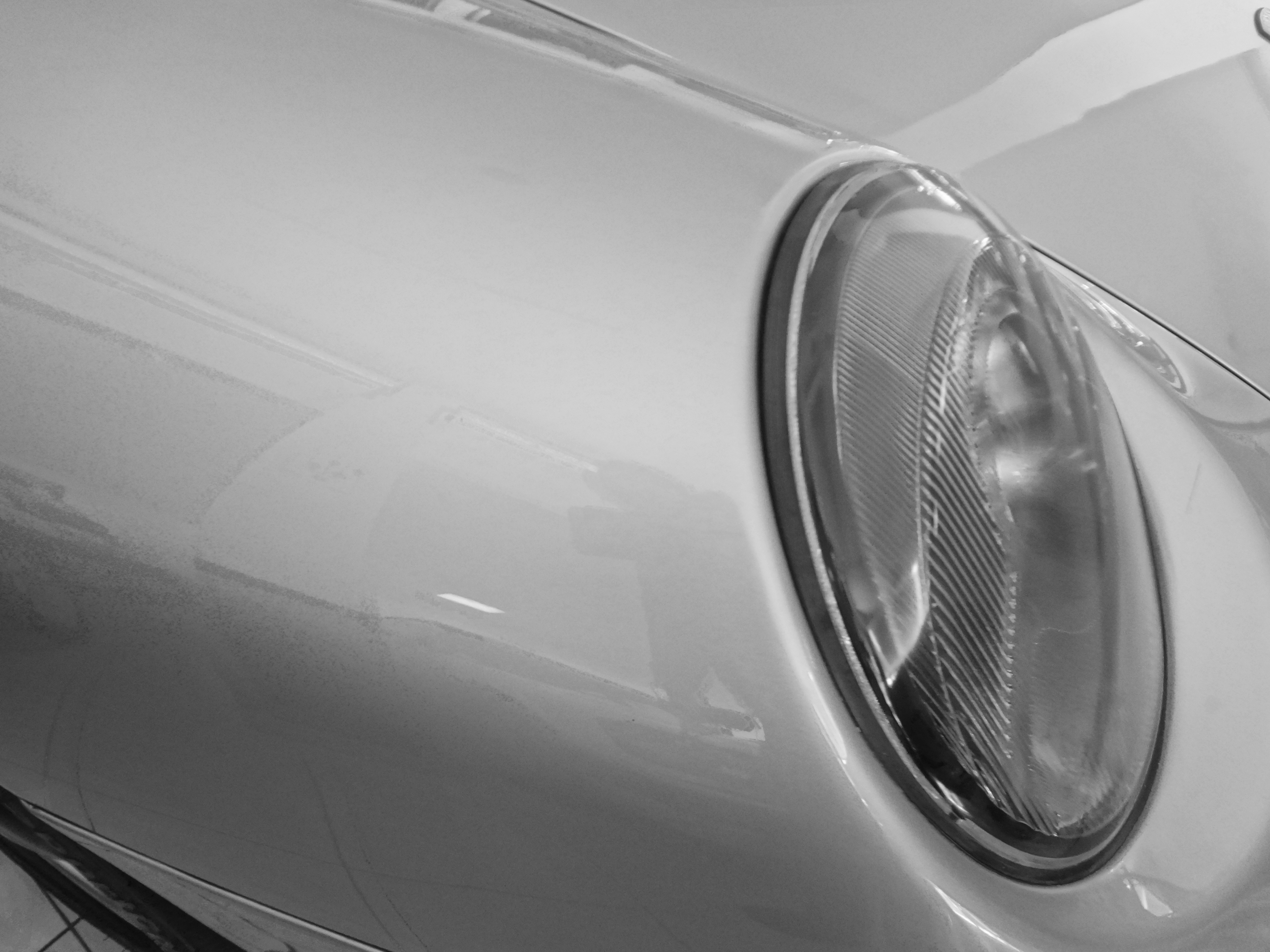 Porsche 911 Carrera Convertable Photography by David Adam Kess (Classic Automobiles) Photography by David Adam Kess